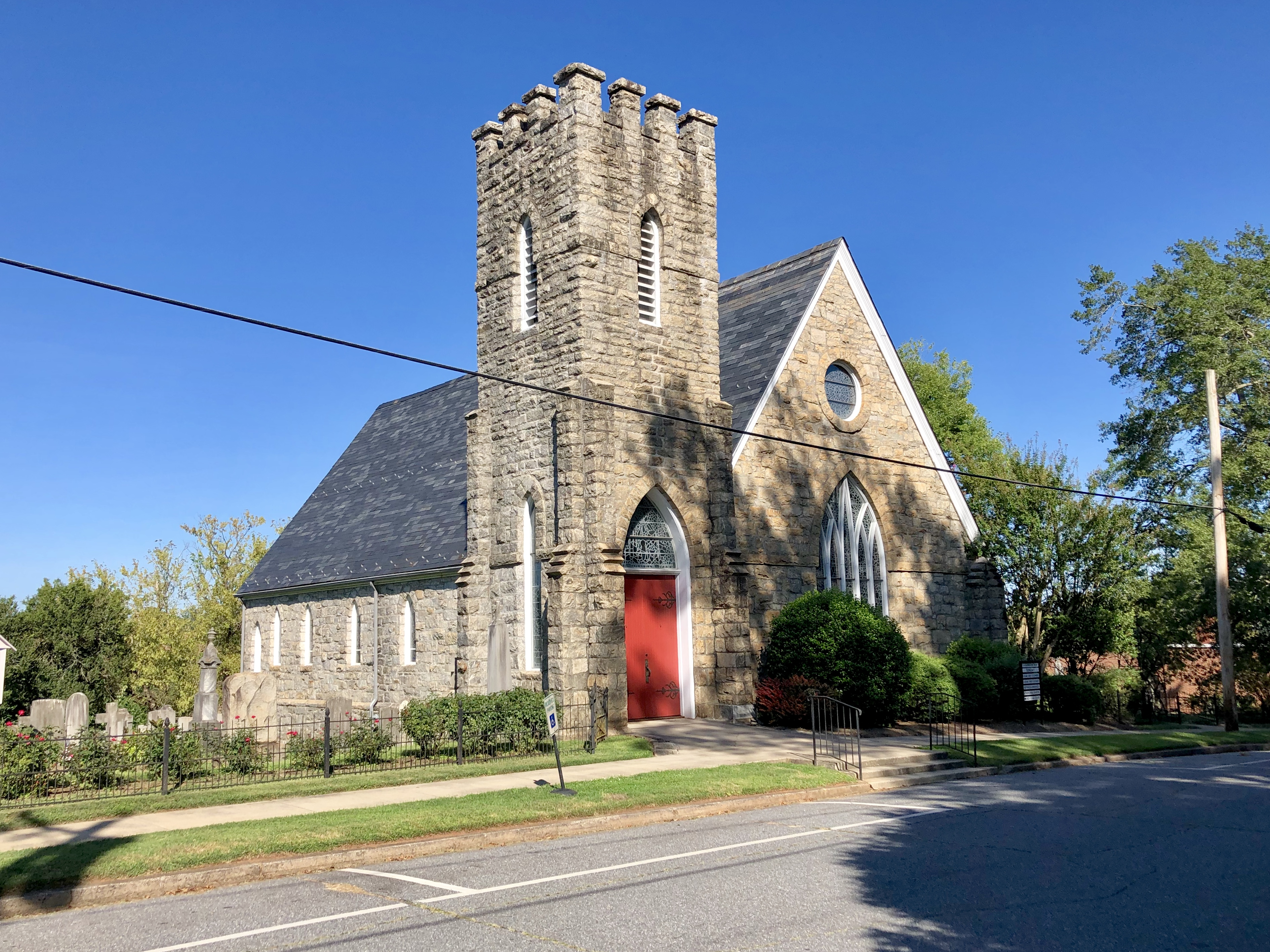 This is the Grace Episcopal Church on South King Street in Morganton, North Carolina, constructed 1896. The building is a contributing building in the South King Street Historic District, listed on the National Register of Historic Places in 1987.